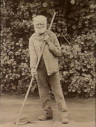 Samuel Cox, reportedly between 114 and 117 at the time of this image, in 1890. Image taken by Stephen Spurling. Image physical description was "albumen silver cabinet ; on mount 16.5 x 10.7 cm., approx". Image has been slightly modified: Crop to remove damaged edges, levels adjusted and saturation slightly decreased, small amount of sharpening applied.